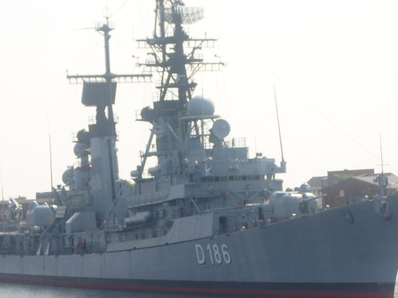 Warship in Wilhelmshaven